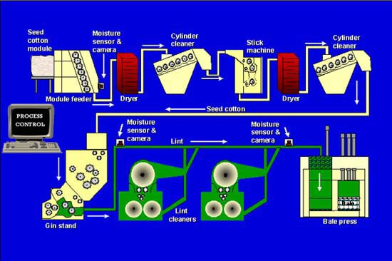 USDA diagram of a modern cotton gin plant.